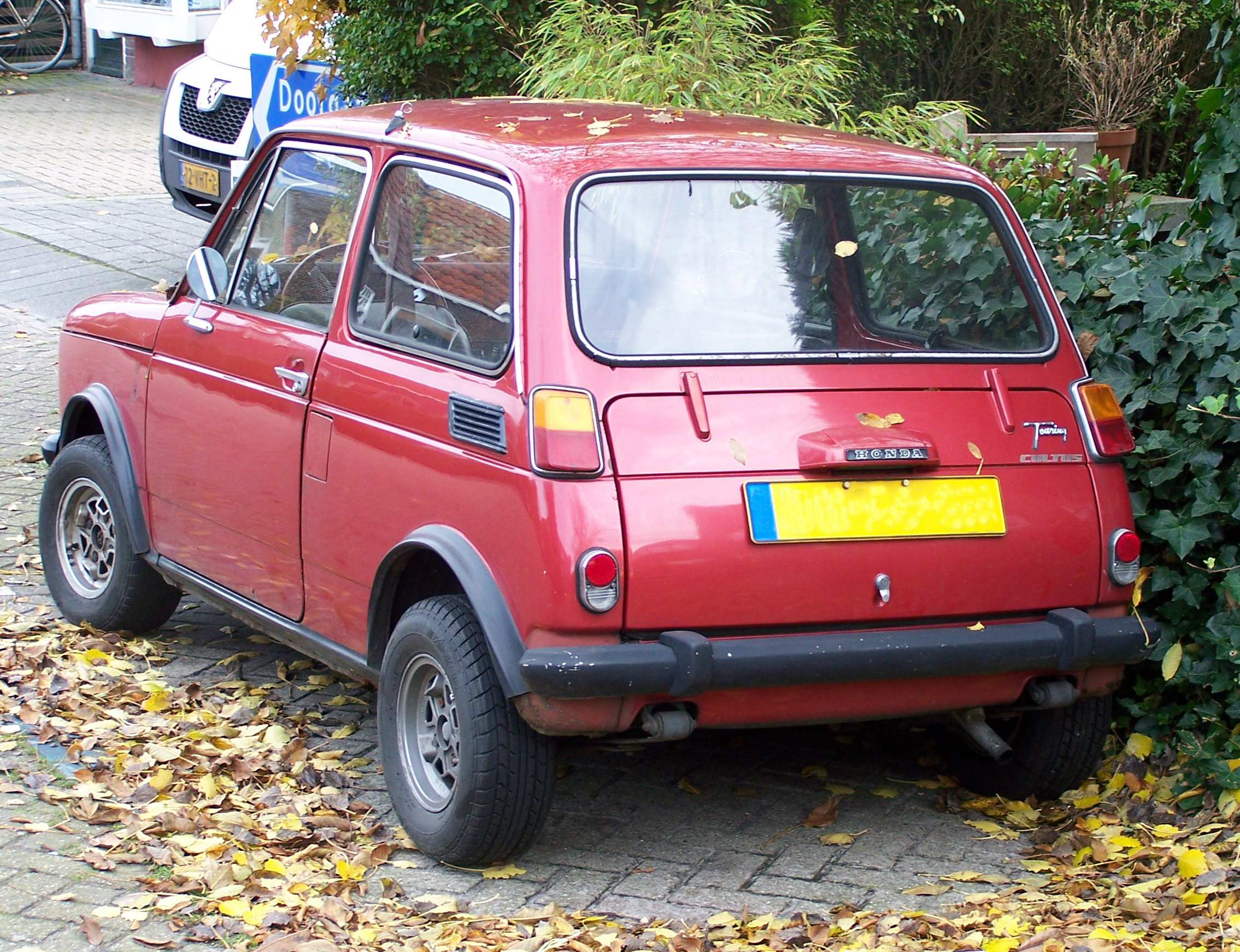 Honda N360 Touring.